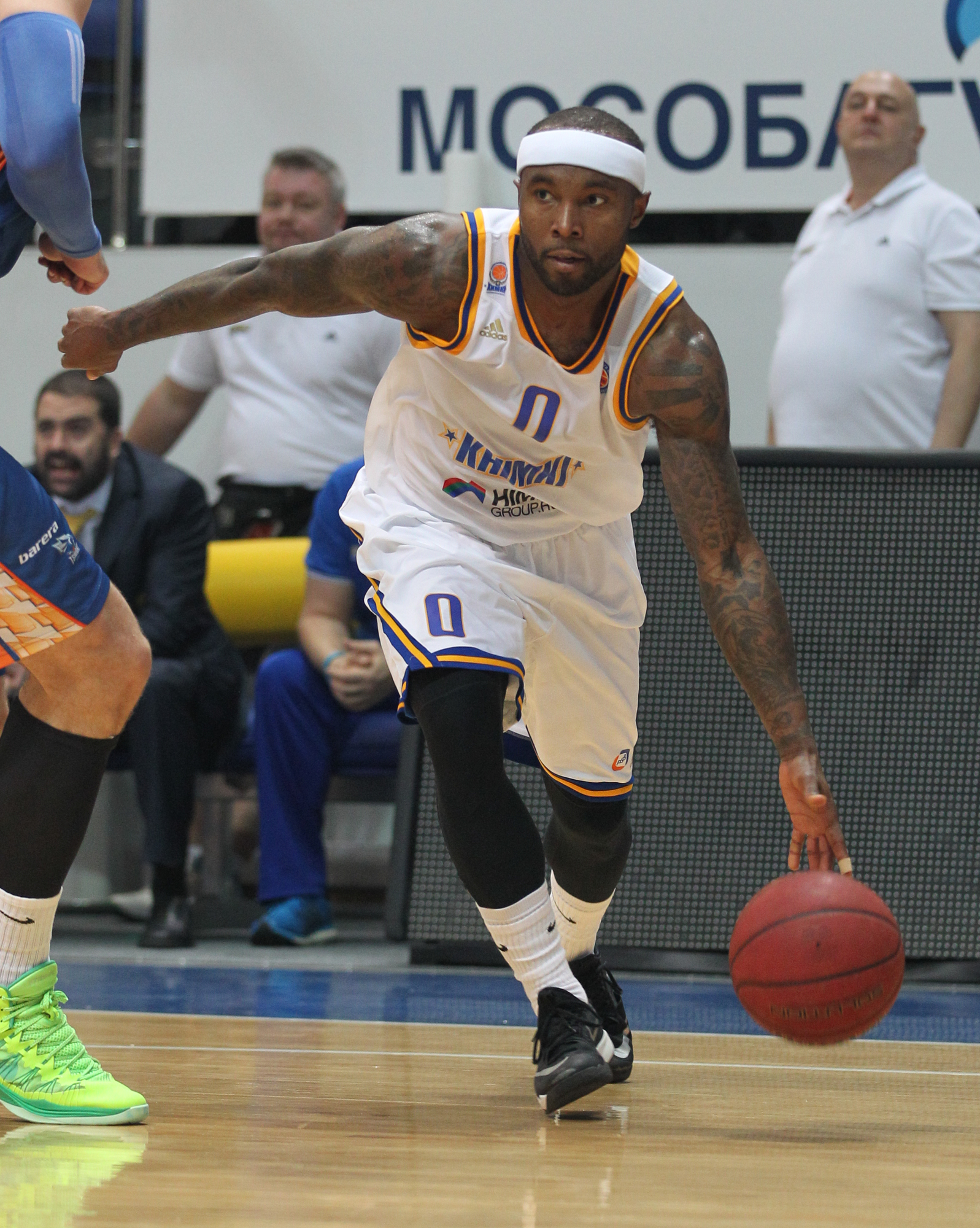 American guard Tyrese Rice playing for BC Khimki in 2015